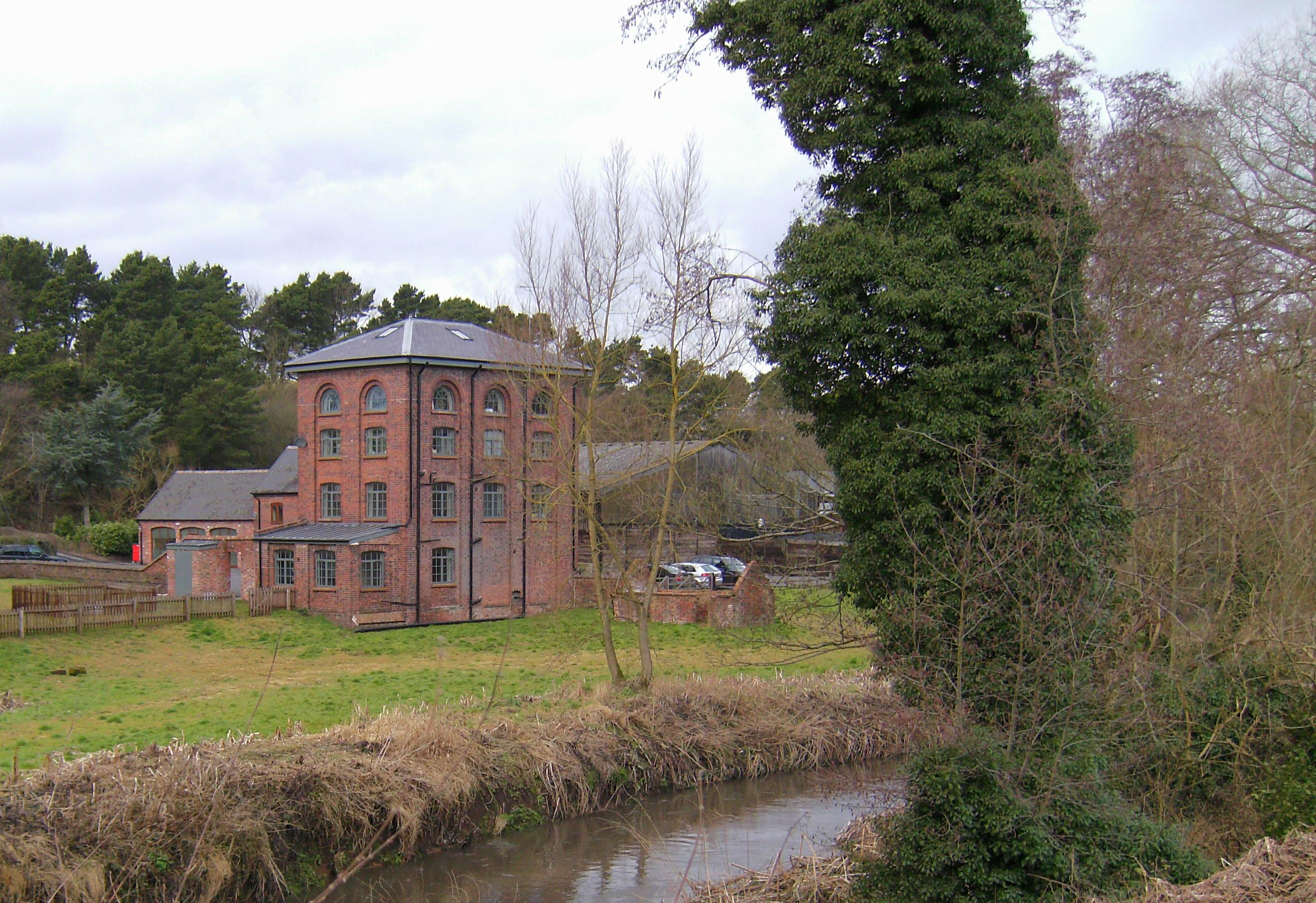 Greensforge Mill, a Victorian corn mill on a site long used as a sharpening mill, Smestow Brook, South staffordshire, UK.